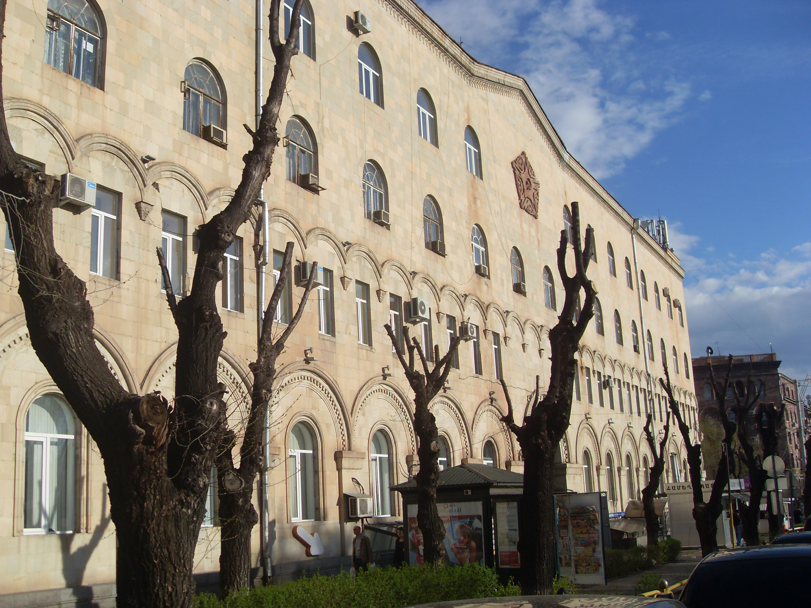 Alek Manukyan street, Yerevan